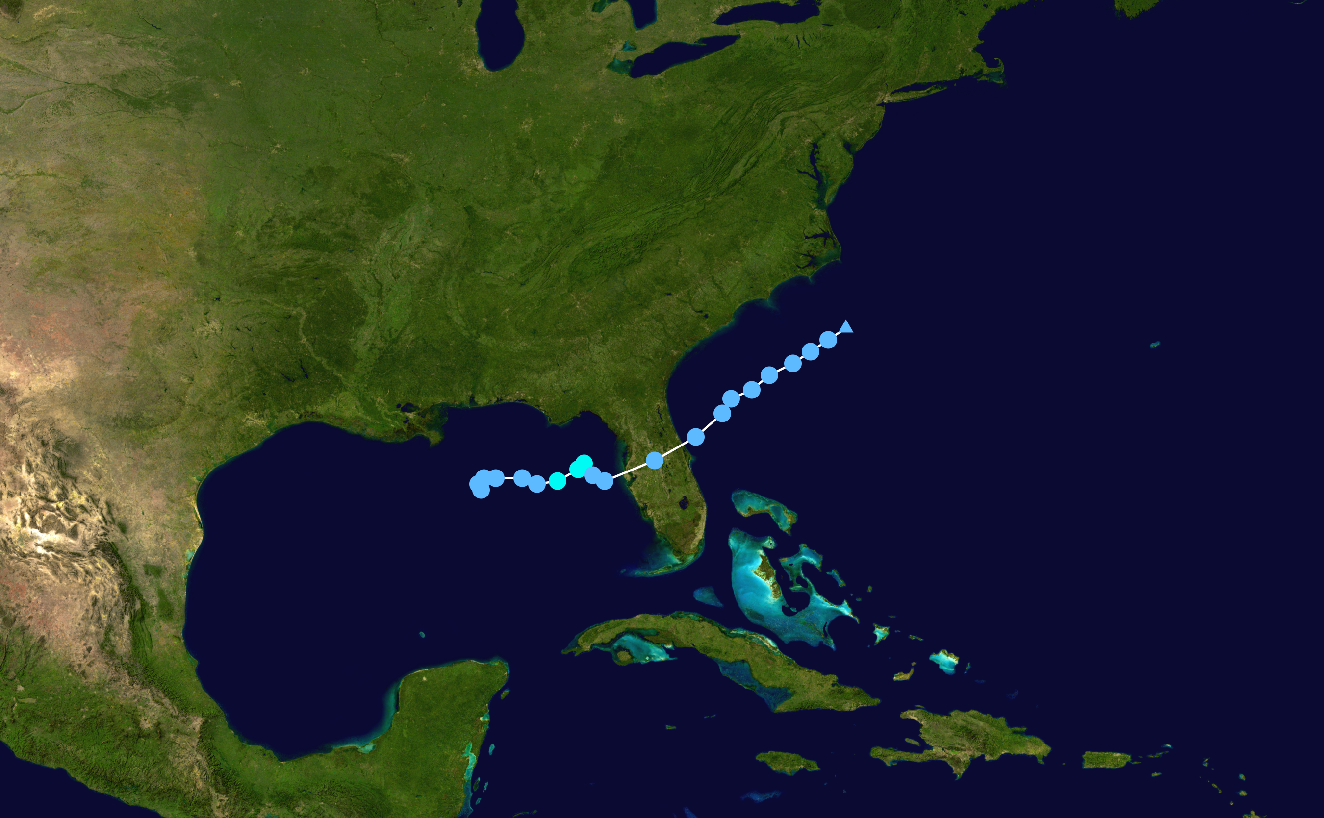 Track map of Tropical Storm Henri of the 2003 Atlantic hurricane season. The points show the location of the storm at 6-hour intervals. The colour represents the storm's maximum sustained wind speeds as classified in the Saffir–Simpson scale (see below), and the shape of the data points represent the nature of the storm, according to the legend below. Saffir–Simpson scale Tropical depression≤38 mph≤62 km/h Category 3111–129 mph178–208 km/h Tropical storm39–73 mph63–118 km/h Category 4130–156 mph209–251 km/h Category 174–95 mph119–153 km/h Category 5≥157 mph≥252 km/h Category 296–110 mph154–177 km/h Unknown Storm type Tropical cyclone Subtropical cyclone Extratropical cyclone / Remnant low / Tropical disturbance / Monsoon depression